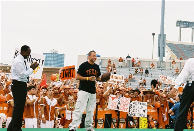 Desmond Howard and Lance Armstrong at College Gameday in Austin, Texas Sept 9, 2006